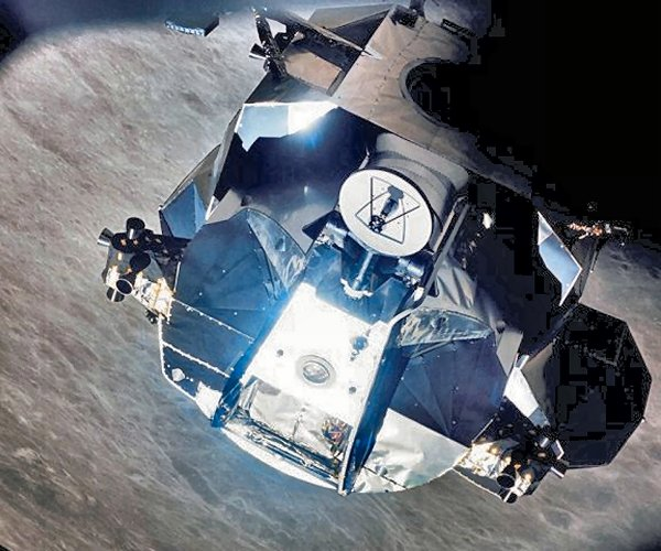 Apollo 10 lunar module.